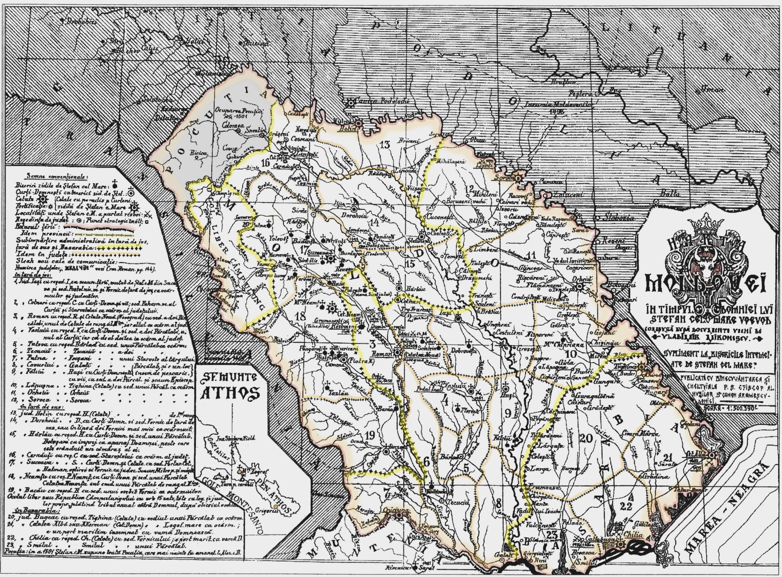 Map of Moldova under Ştefan cel Mare, coloured version